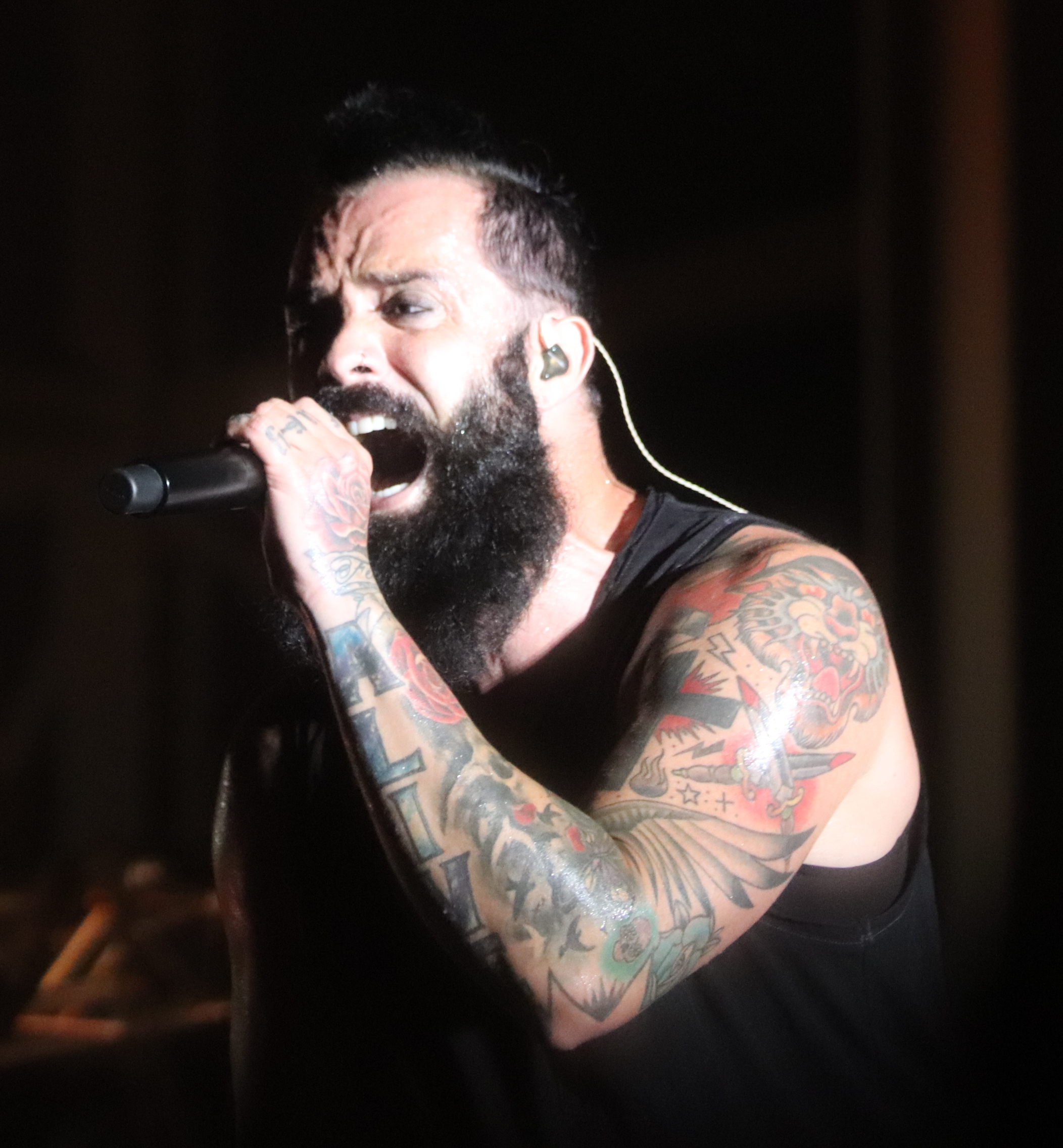 Skillet lead singer Jon Cooper singing at Lifest.